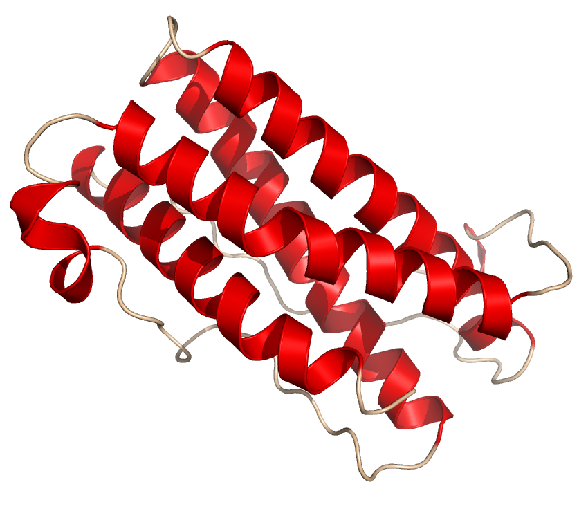 Crystal structure of Leukemia Inhibitory Factor from mouse as published in the Protein Data Bank (PDB: 1LKI)